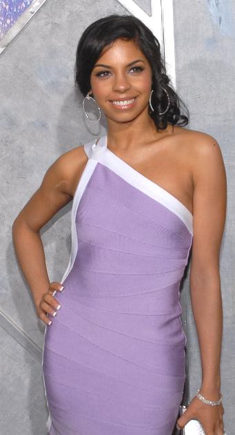 Danielle Polanco at the premiere of the film Step Up 2 The Streets